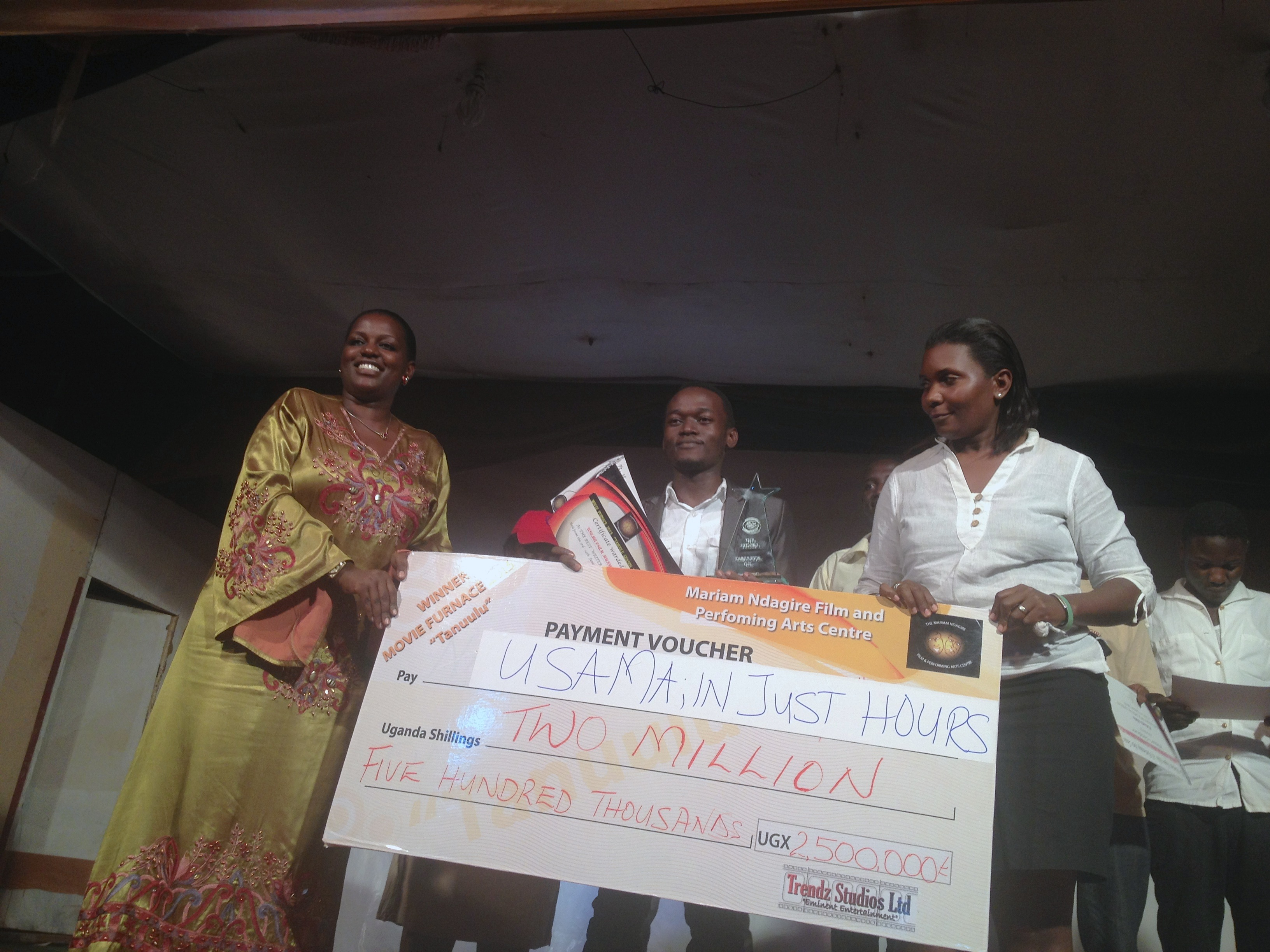 Usama Mukwaya handed his winning price for the 2013 Movie Furnace Programme